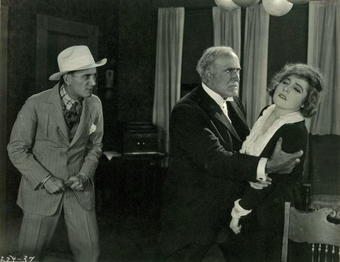 Left to right: Charles West, Theodore Roberts, and Ethel Clayton in The Girl Who Came Back (1918) - publicity still (original image damaged, modified and cropped). Has film still code L254.